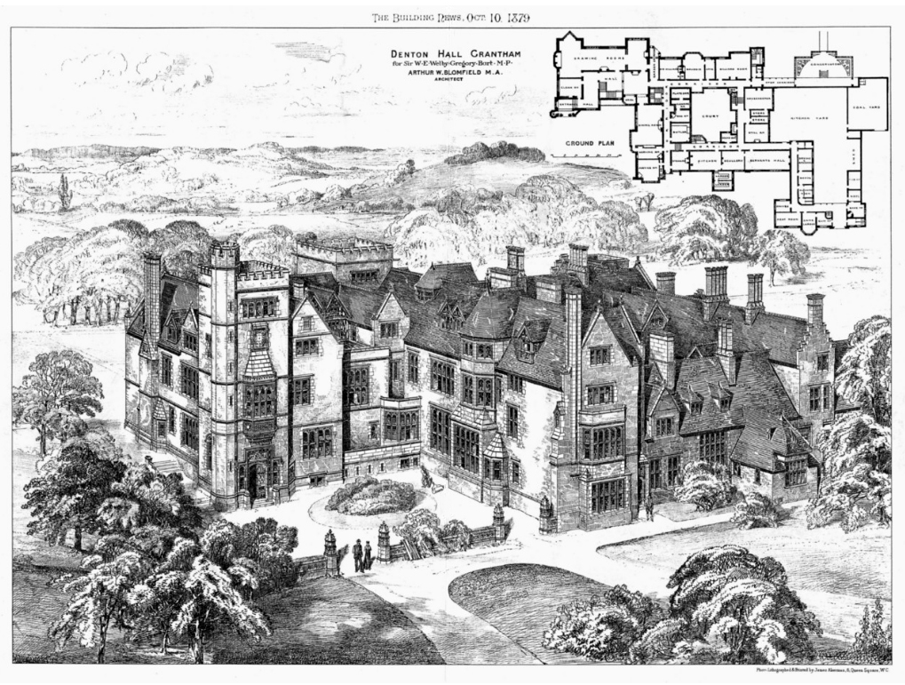 Denton Hall, Denton, near Grantham, Lincolnshire, England. A folio print published in The Building News, 10 October 1879. Denton Hall, built in 1879 to the designs of architect Sir Arthur Blomfield. The hall was demolished in 1940.